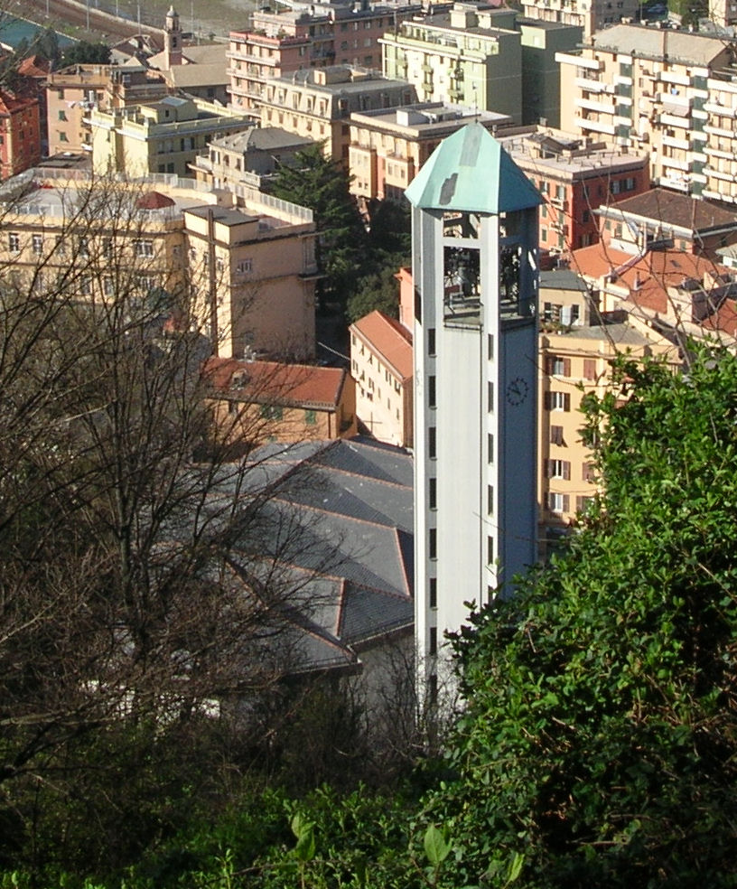 Genoa (Italy), quarter of Bolzaneto, the bell tower of the church of N.S. della Neve